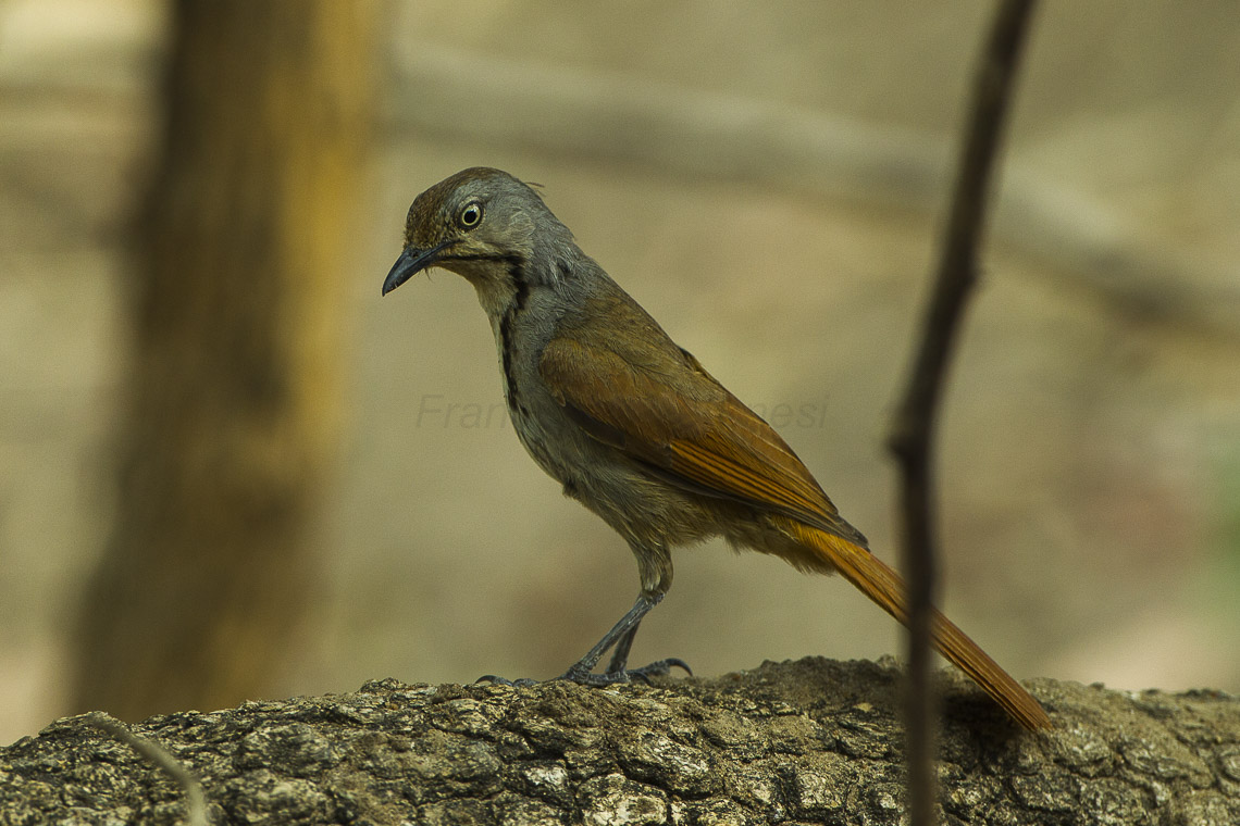 Collared Palm-Thrush - Malawi_S4E3382